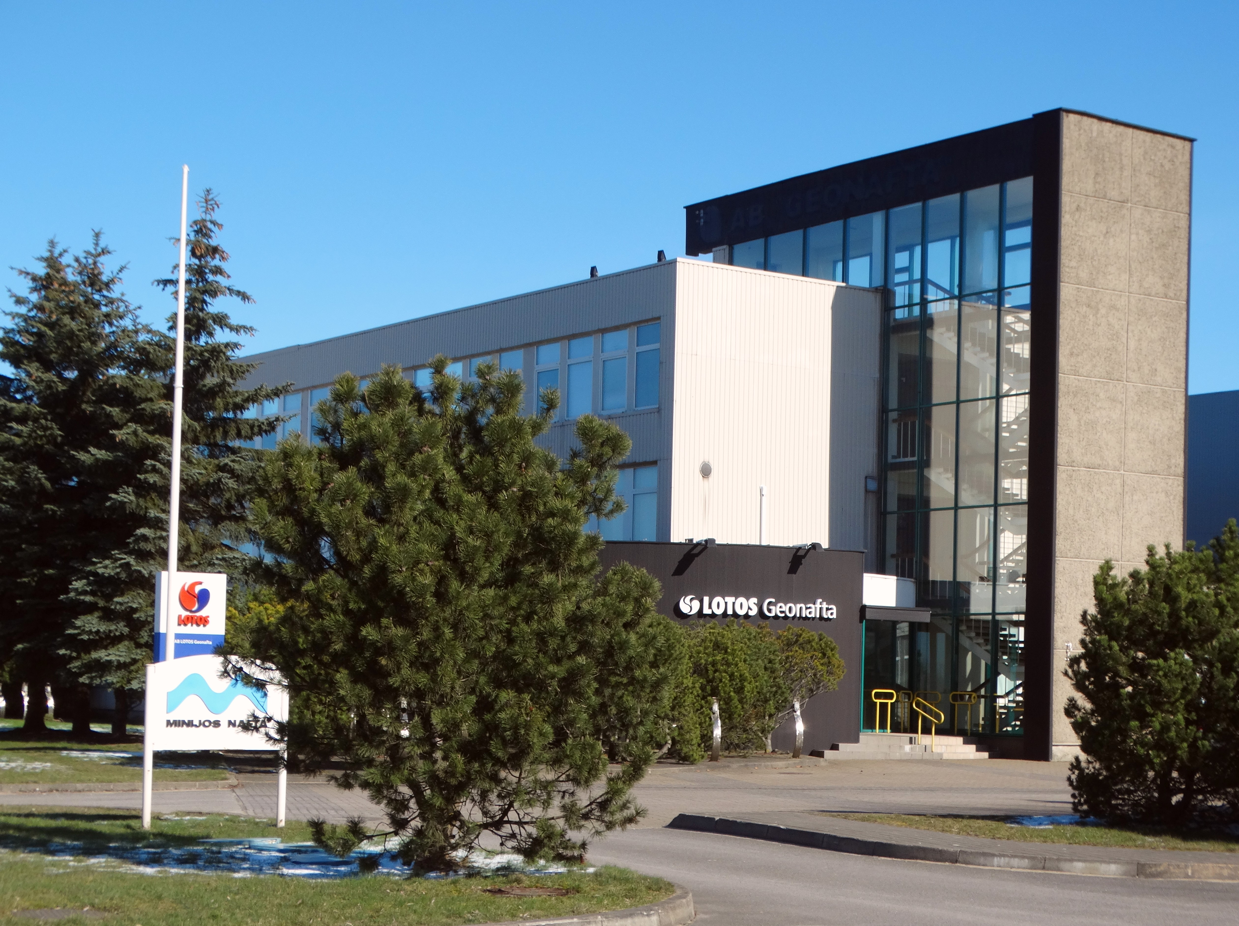 Minijos nafta, Gargždai, Lithuania